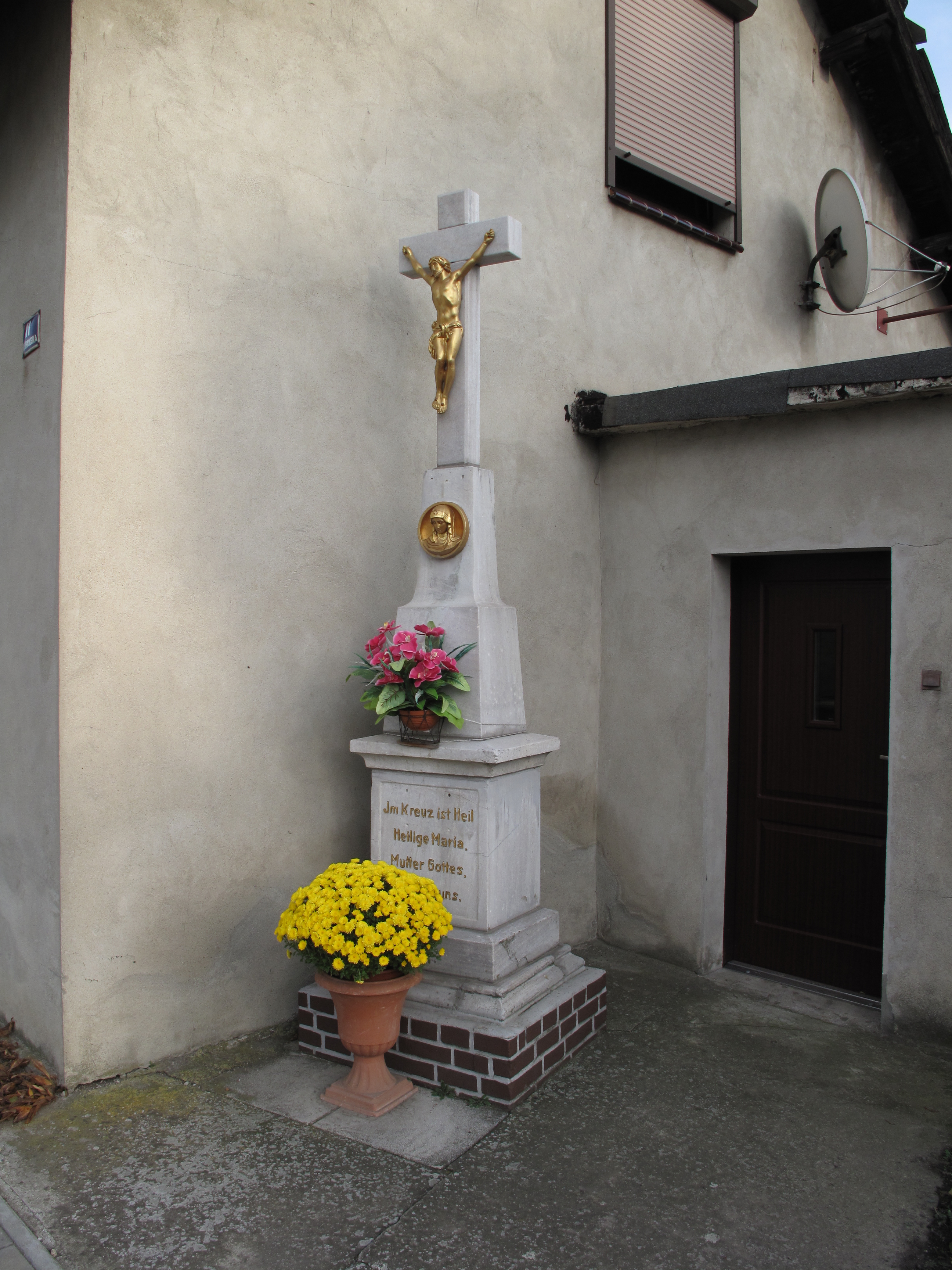 Samborowice (województwo śląskie). Racibórz County, Poland.